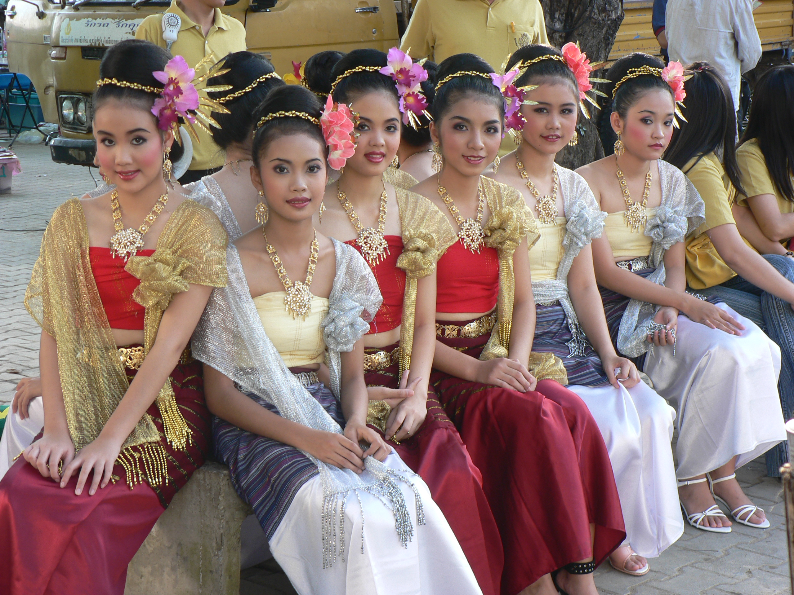 Thai beauties in traditional costumes. Chiang Mai 2005